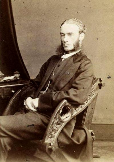 Portrait of Henry Fanshawe Tozer